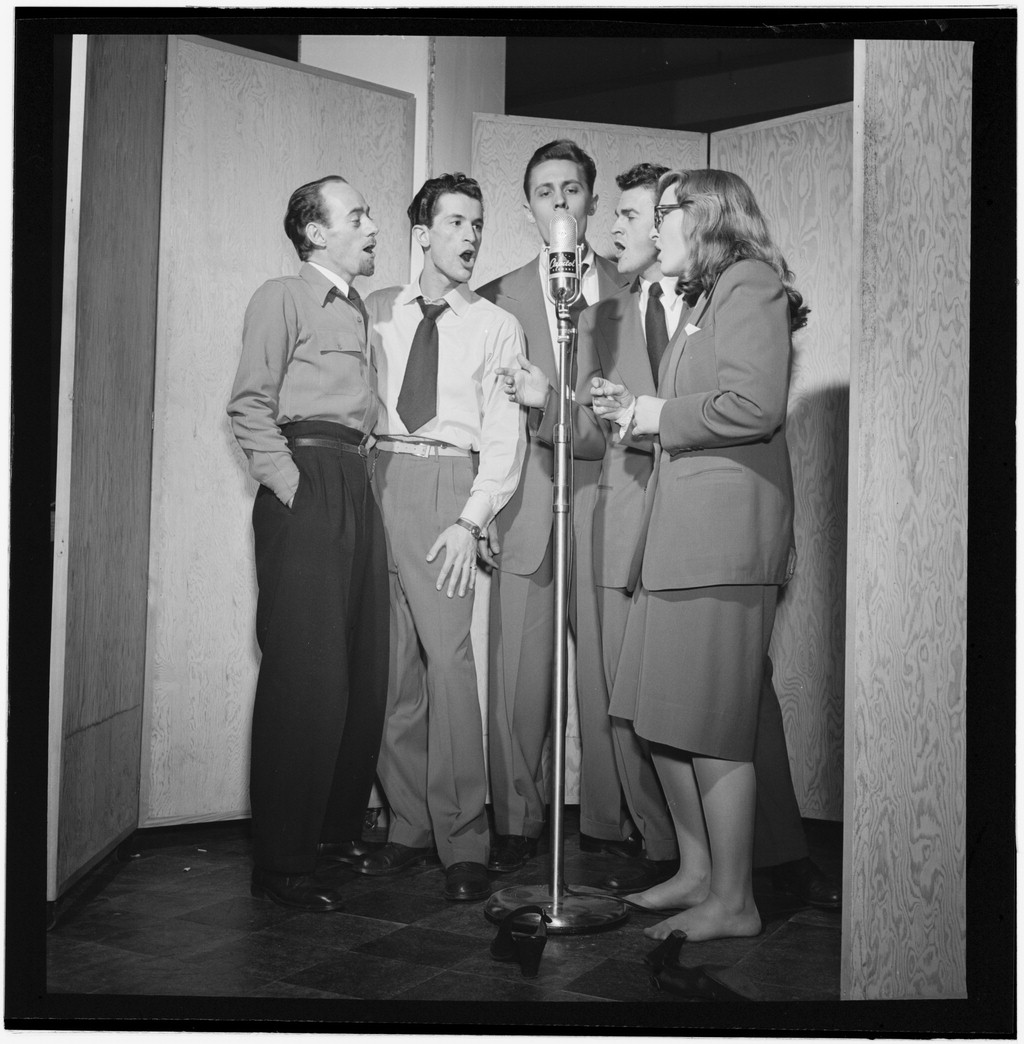 Gottlieb, William P., 1917-, photographer. [Portrait of Dave Lambert, Jerry Duane, Wayne Howard, Jerry Packer, and Margaret Dale, New York, N.Y., ca. Jan. 1947] 1 negative : b&w ; 2 1/4 x 2 1/4 in. Caption from Down Beat: First Captiol recording session of the Stan Kenton band in the new eastern studios is pictured above by staff lensman Bill Gottlieb. At the top are the Pastels, Stan's vocal group, with David Lambert (left) giving special assistance to Jerry Duane, Wayne Howard, Jerry Packer and Margaret Dale for the session only. Below is the maestro, looking rather woozy, talking to Pete Rugolo, arranger, with Harry Forbes in the background. Notes: Gottlieb Collection Assignment No. 198 Reference print available in Music Division, Library of Congress. Purchase William P. Gottlieb Forms part of: William P. Gottlieb Collection (Library of Congress). In: "Kenton krew kuts a few," Down Beat, v. 16, no. 3 (Jan. 29, 1947), p. 1. Subjects: Lambert, Dave, 1917- Duane, Jerry Howard, Wayne Packer, Jerry Dale, Margaret Pastels, The Jazz musicians--1940-1950. Women jazz musicians--1940-1950. Jazz singers--1940-1950. Format: Portrait photographs--1940-1950. Group portraits--1940-1950. Film negatives--1940-1950. Rights Info: Mr. Gottlieb has dedicated these works to the public domain, but rights of privacy and publicity may apply. Repository: (negative) Library of Congress, Prints & Photographs Division, Washington D.C. 20540 USA, (reference print) Library of Congress, Music Division, Washington D.C. 20540 USA, Part Of: William P. Gottlieb Collection (DLC) 99-401005 General information about the Gottlieb Collection is available at Persistent URL: Call Number: LC-GLB23- 0553 This work is from the William P. Gottlieb collection at the Library of Congress. Rights and restrictions.In accordance with the wishes of William Gottlieb, the photographs in this collection entered into the public domain on February 16, 2010.